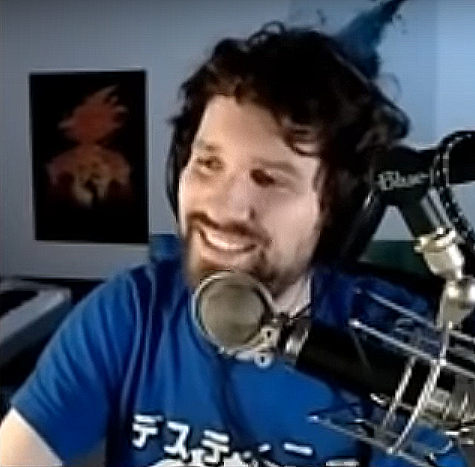 Video game streamer and political commentator Destiny debating police brutality and racial issues on Modern-Day Debate